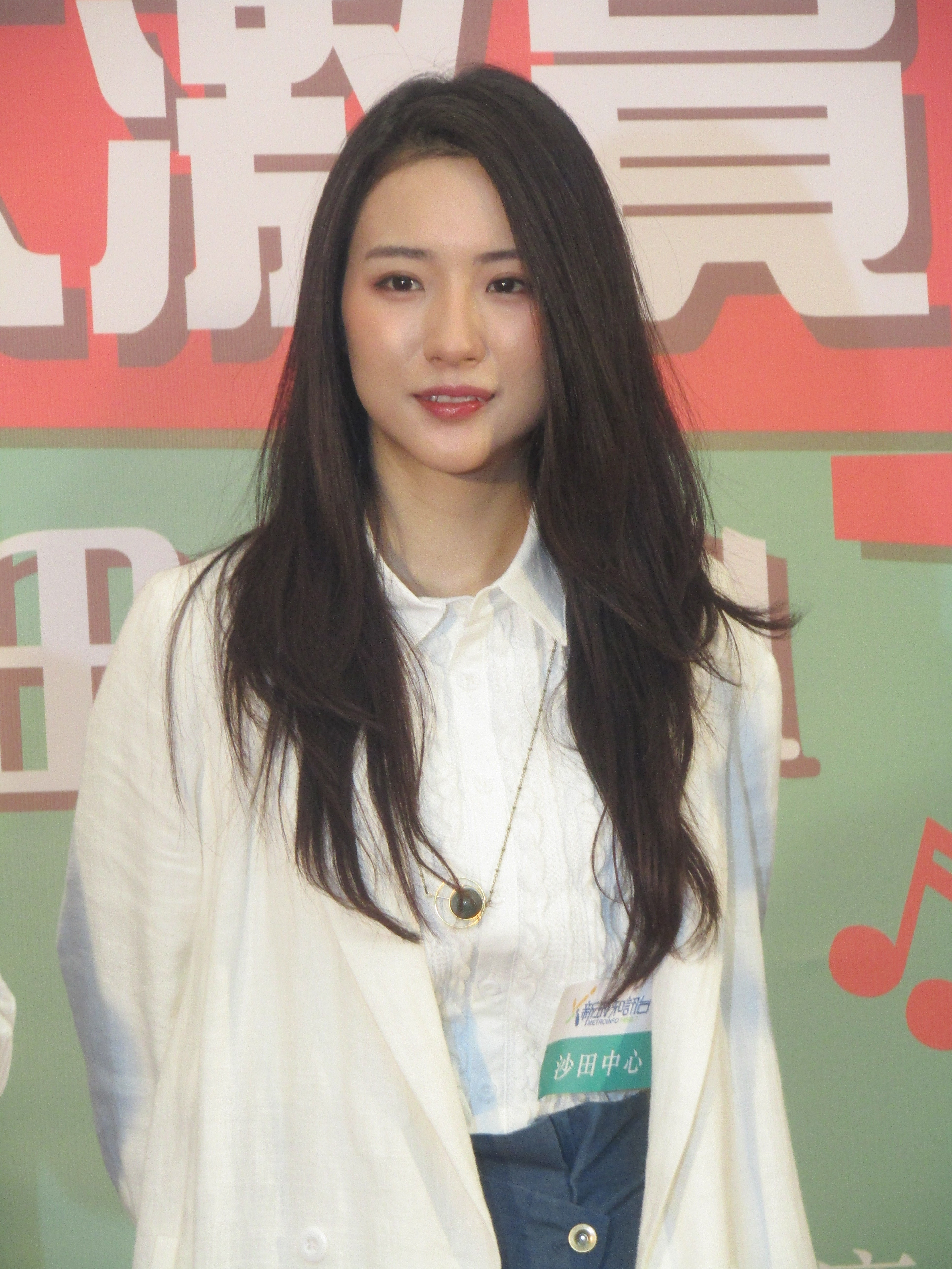 Hana Kuk is in Shatin Centre